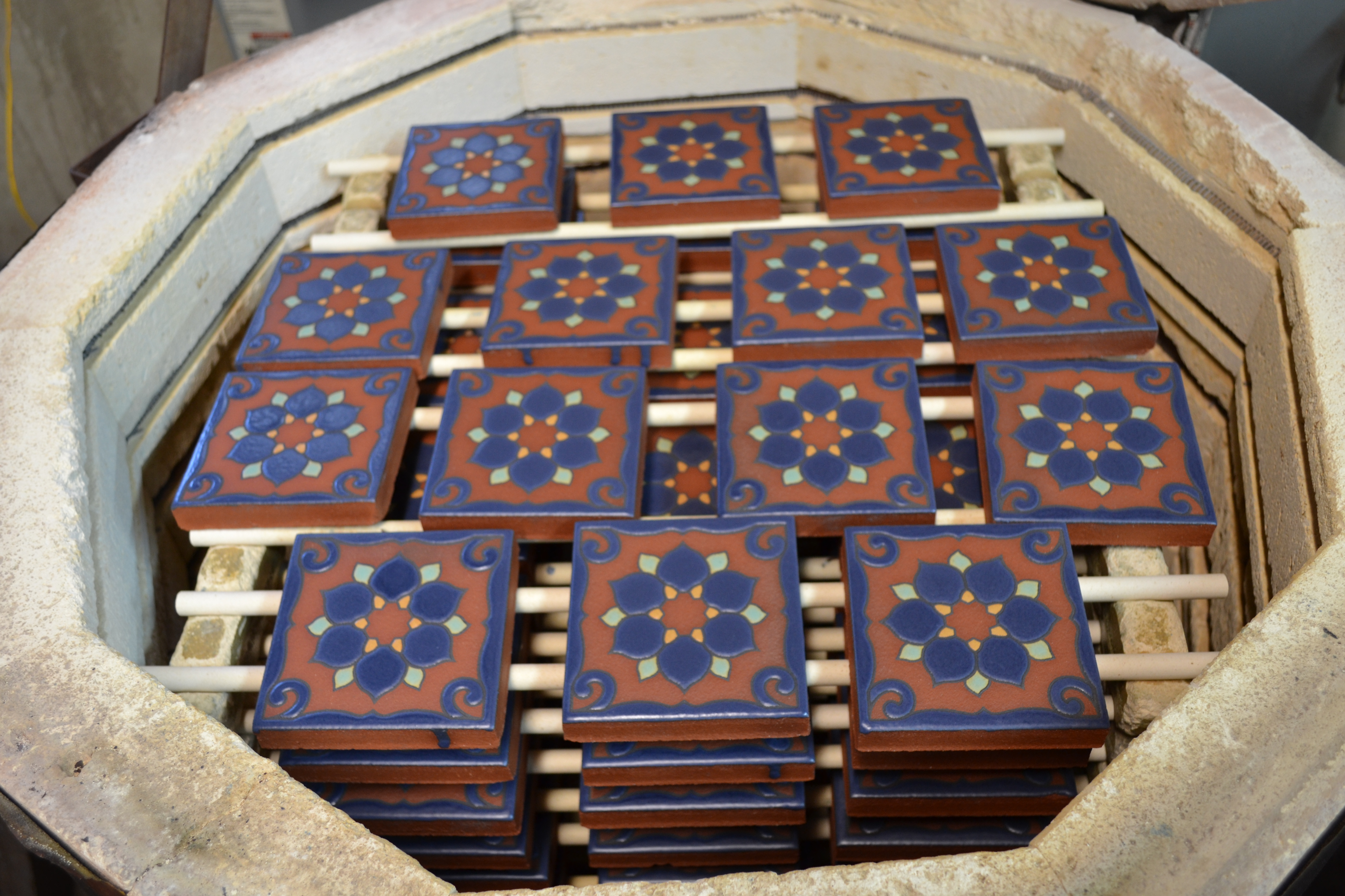 This photograph illustrates how multiple tile are stacked within a kiln to optimize the amount of product that is produced from one firing